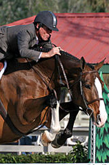 Hunterhorse